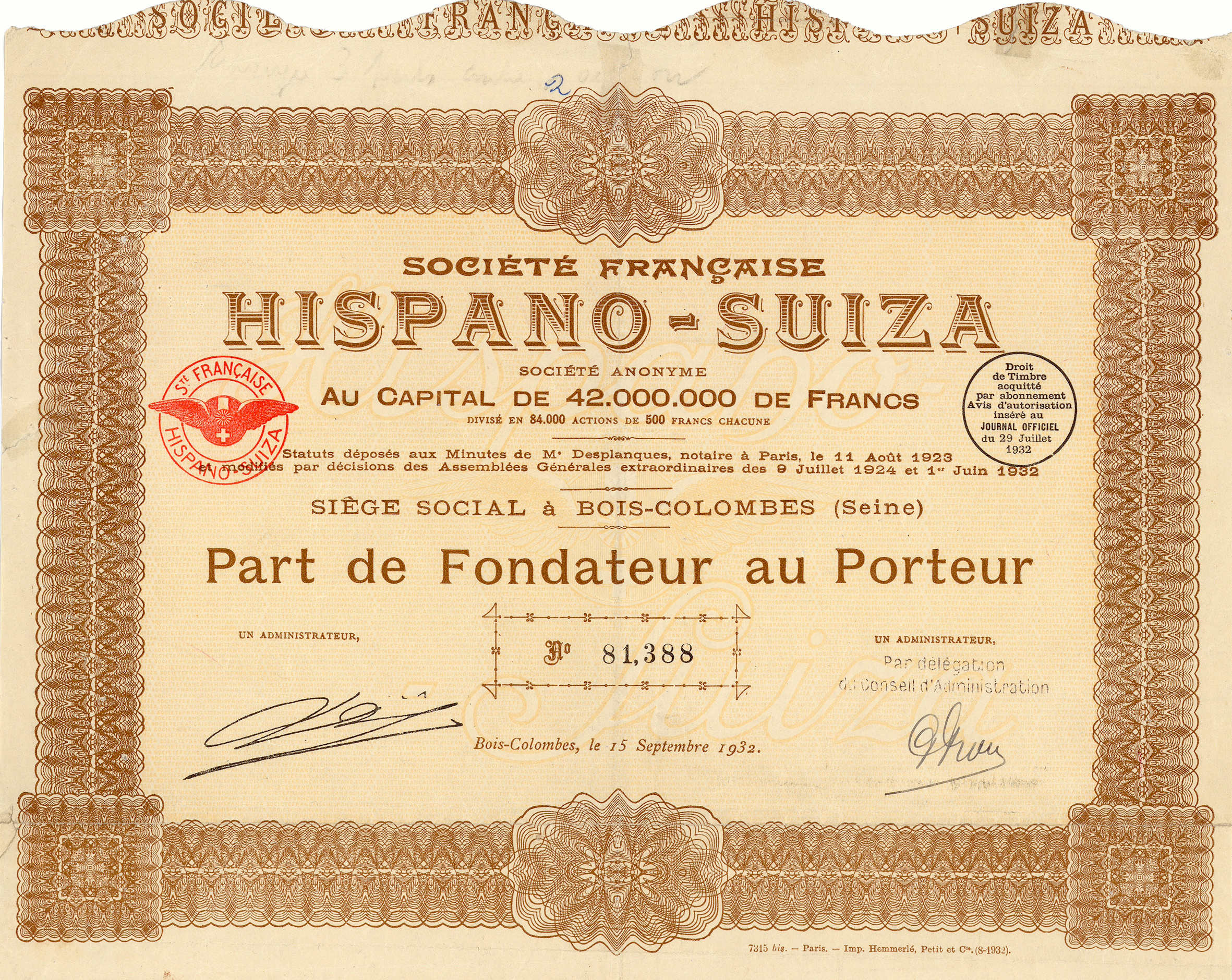 Part de Fondateur of the Société Française Hispano-Suiza, S.A., issued 15. September 1932